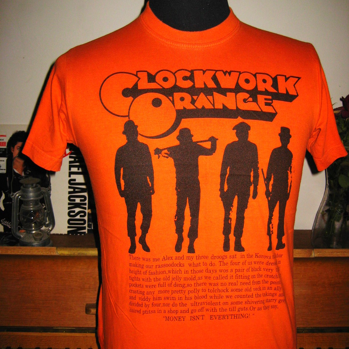 vintage printed thin tees